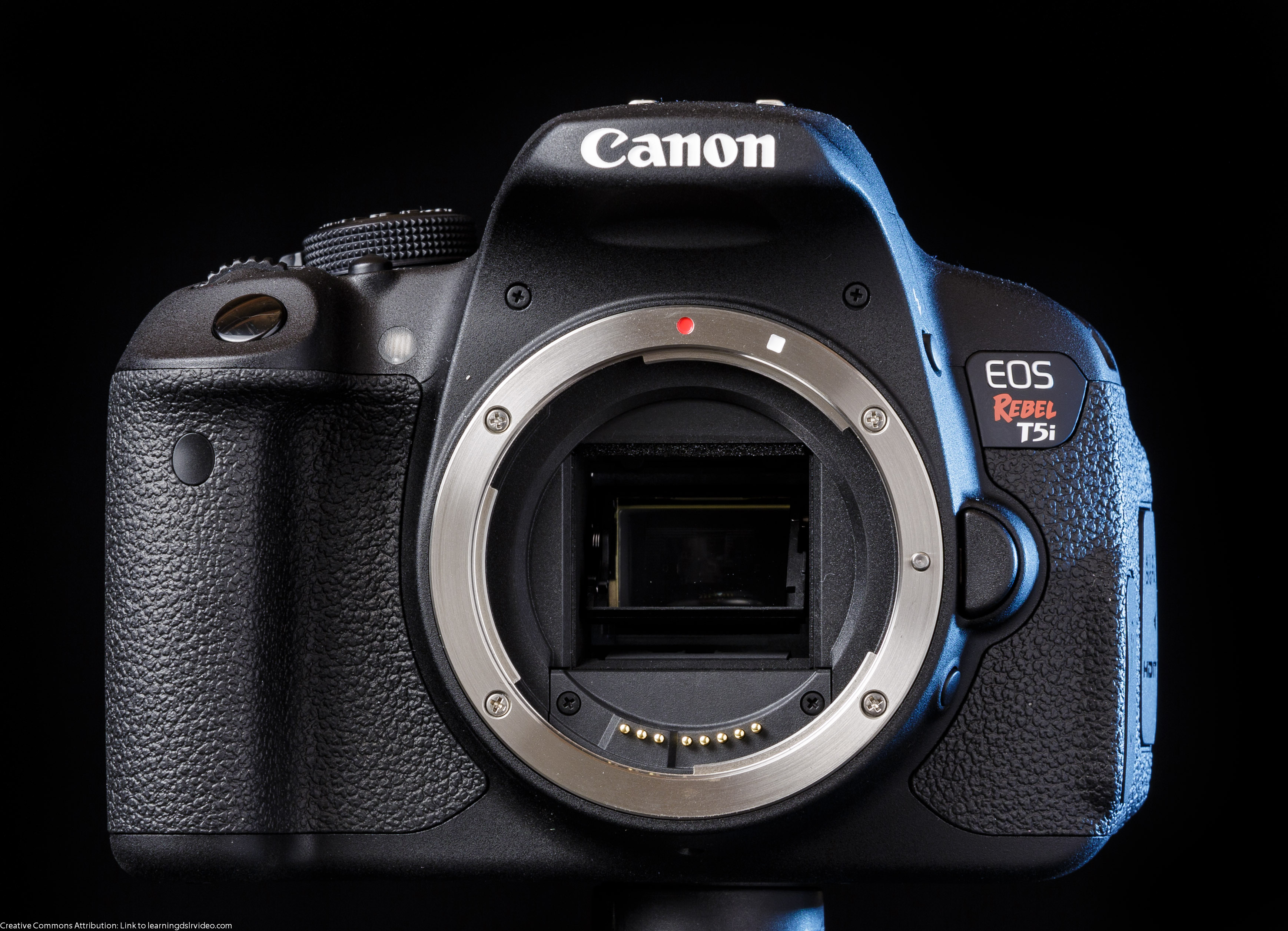 Canon EOS Rebel T5i DSLR camera